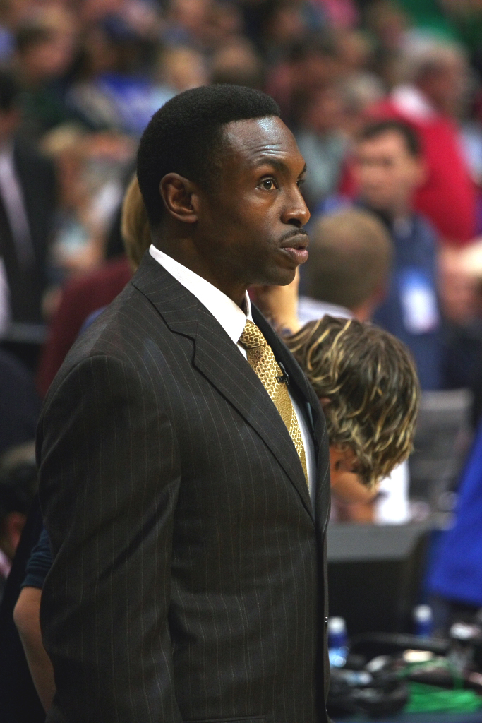 Avery Johnson coach of Dallas Maverics